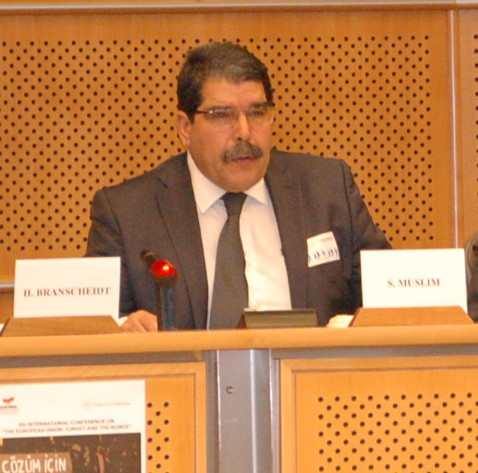 PYD-leader Saleh Muslim in Brussels, December 2012Türkçe: PYD Eşbaşkanı Salih Müslim 9. Uluslararası Kürt Konferansında, Brüksel, Aralık 2012.